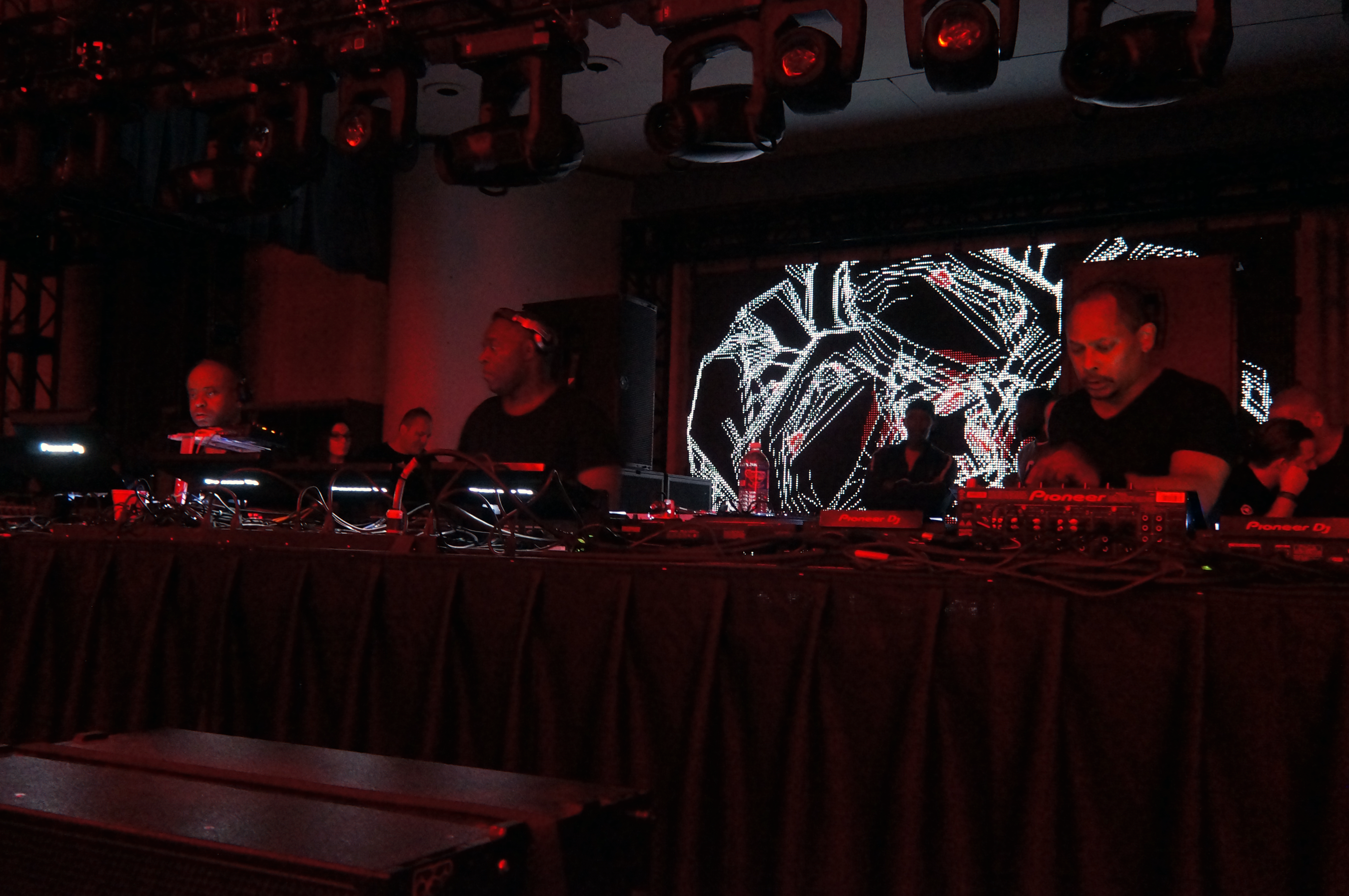 The Belleville Three performing at the Detroit Masonic Temple on May 27th 2017